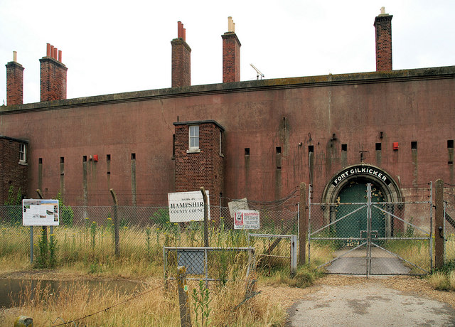 Fort Gilkicker In need of a lot of work.